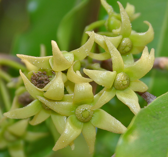 Polyalthia longifolia - Ashok, Ashoka, False ashoka, Green champa, Indian Fir tree, Mast tree, Telegraph pole tree, glodogan tiang or Devadaru near Hyderabad, India.